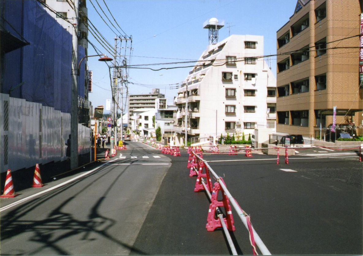 The Basha-Shindo Avenue,made for Iruma Horse Tram(Irumagawa,Sayama-shi,SAITAMA,Japan)